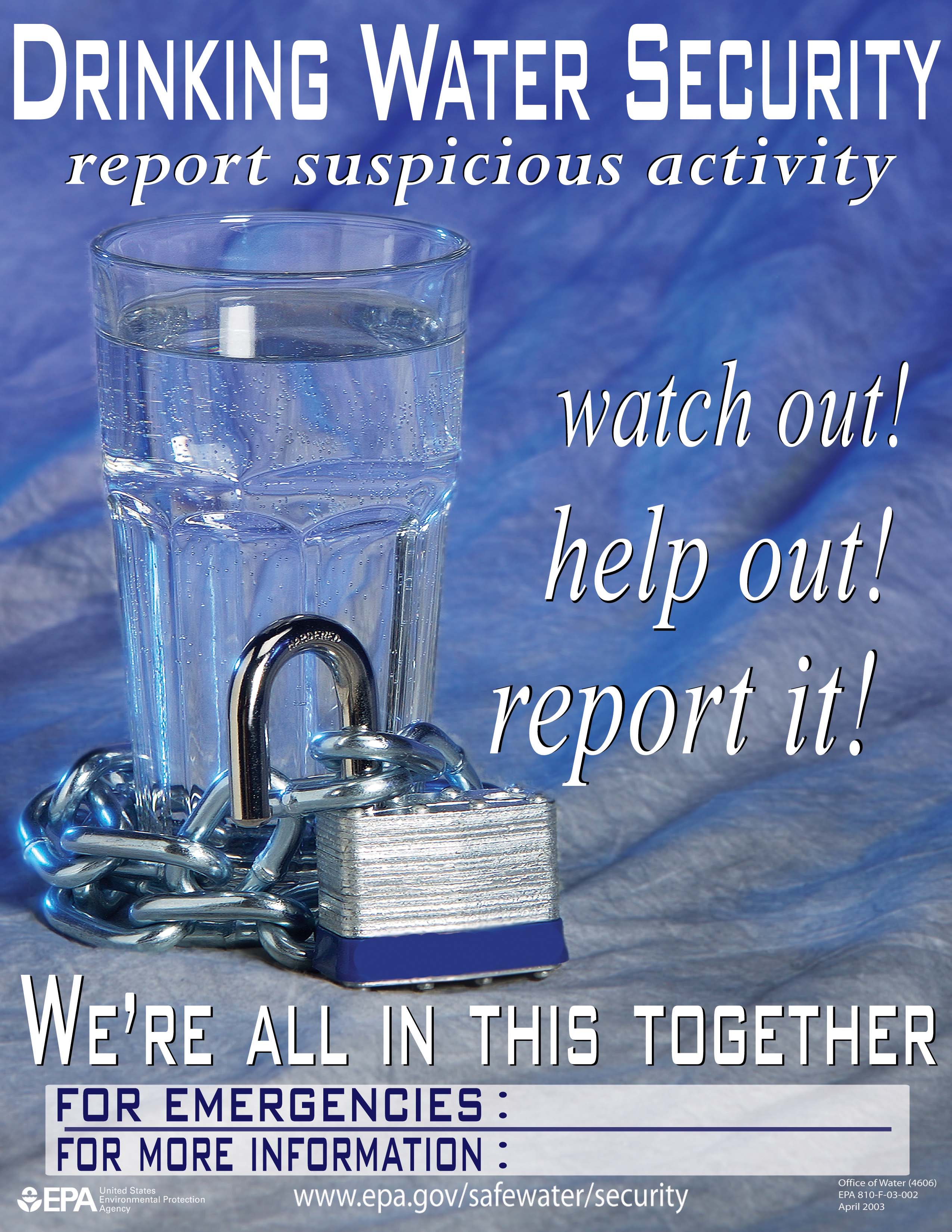 Poster, "Drinking Water Security: Report Suspicious Activity"